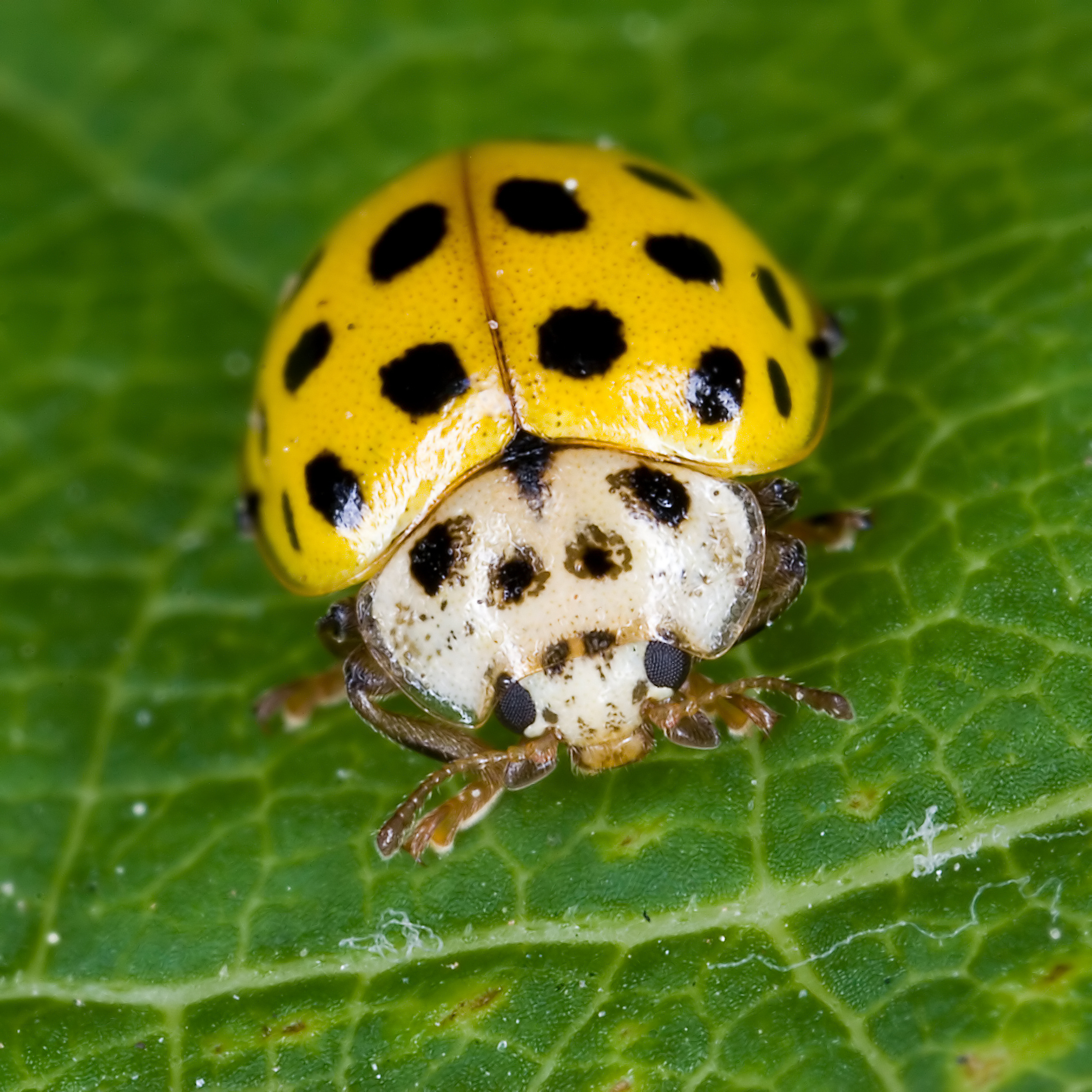 Thea vigintiduopunctata